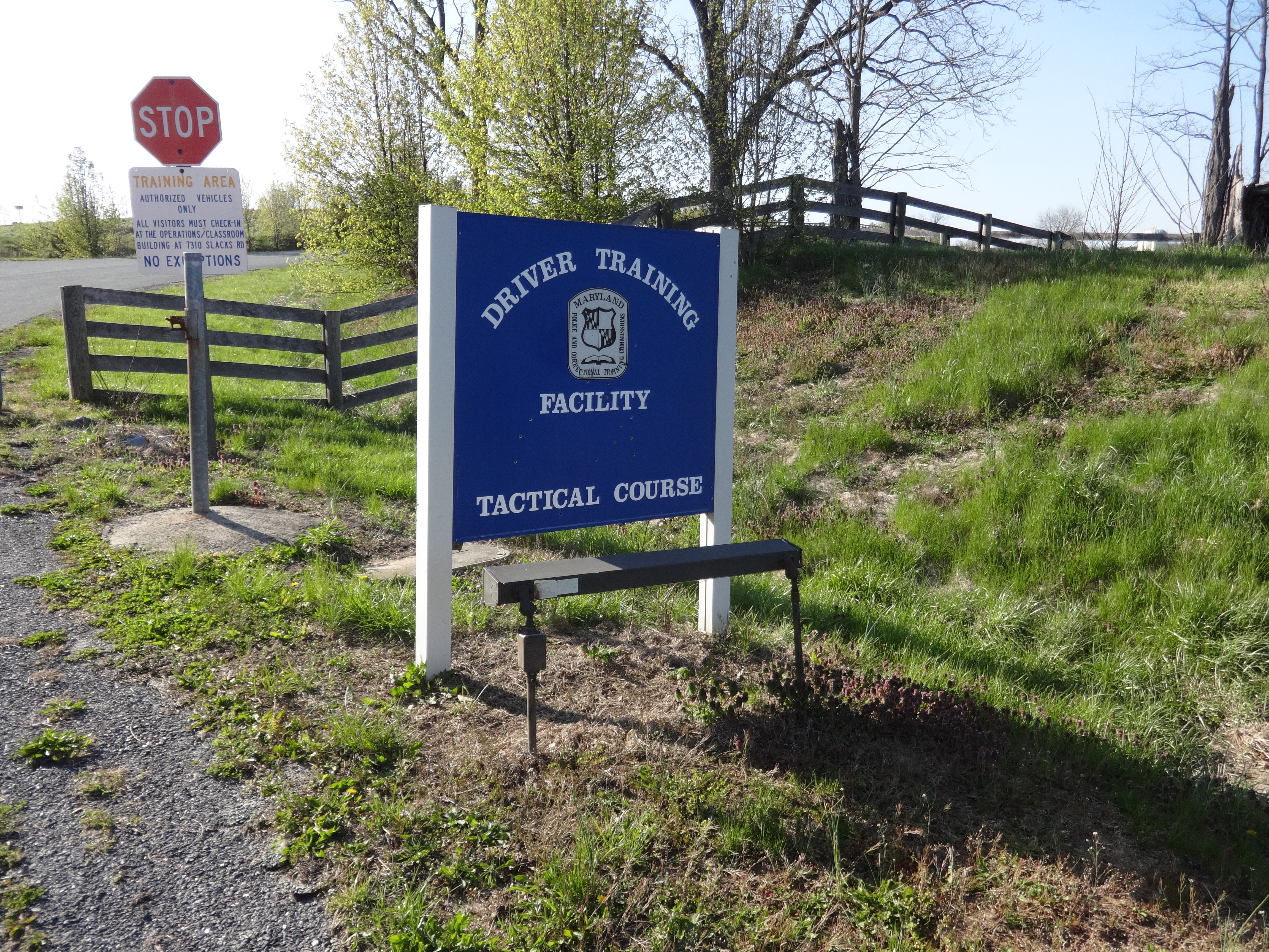 Driver Training Facility, Police & Correctional Training, Sykesville, Maryland.